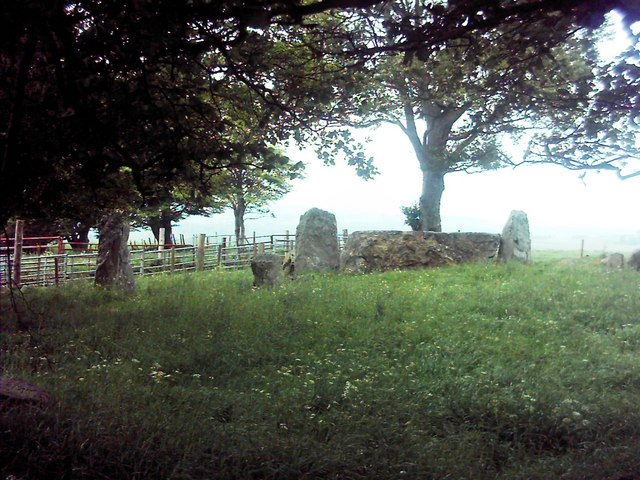 Old Keig Stone Circle The remains of a stone circle to the Northwest of Old Keig farm.